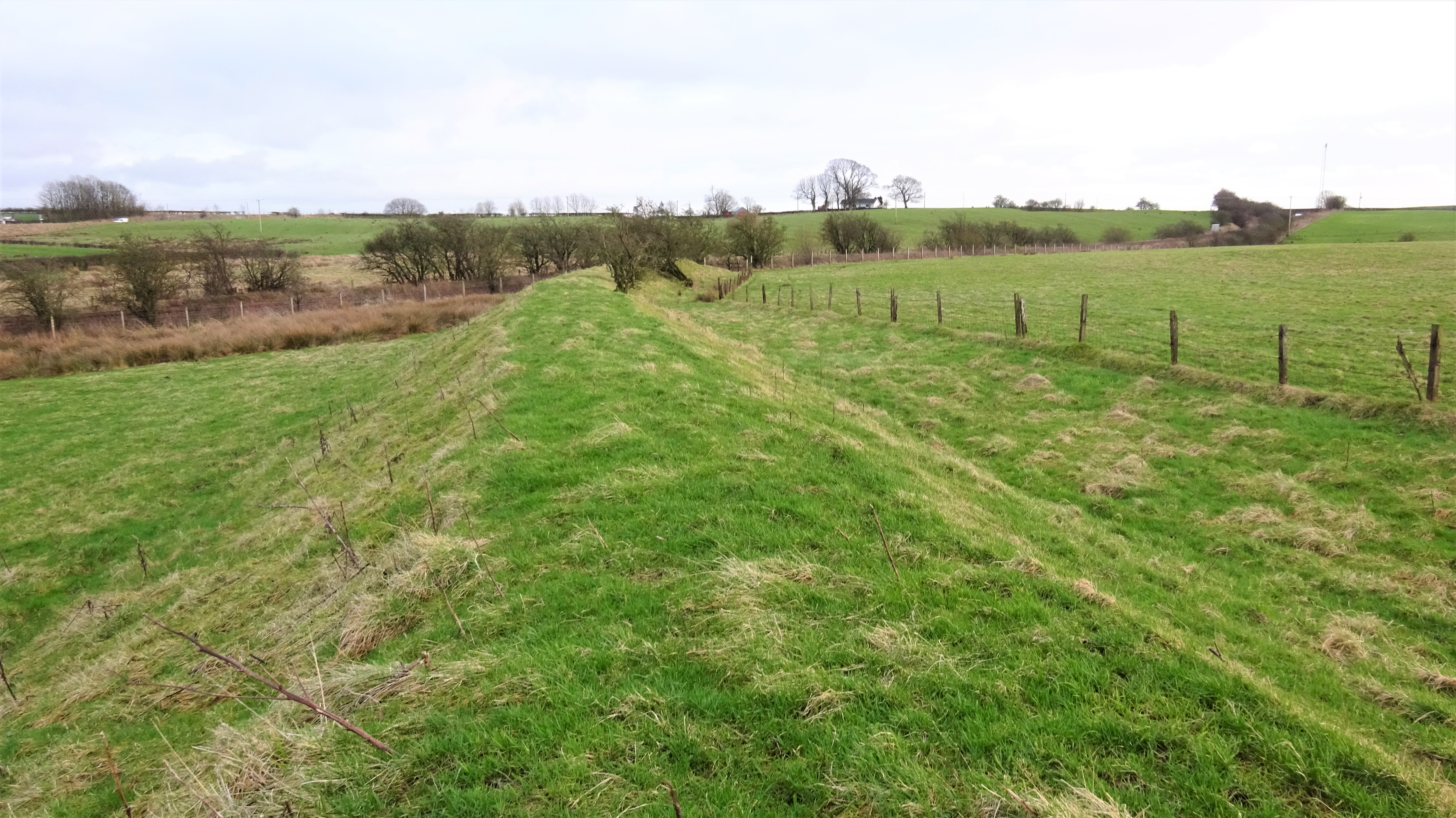 Mains Quarry tramway, Mains Farm, Dunlop, East Ayrshire. The tramway served the whinstone quarry in circa 1909.